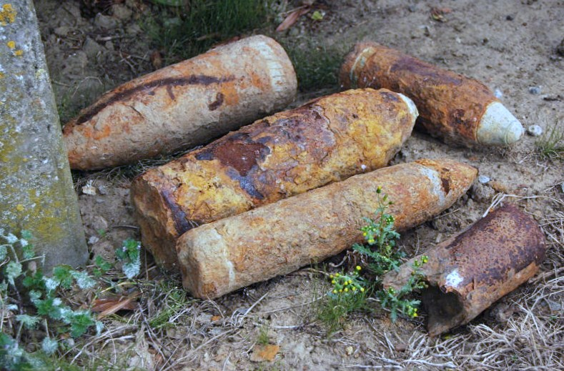 Duds at Hil 32